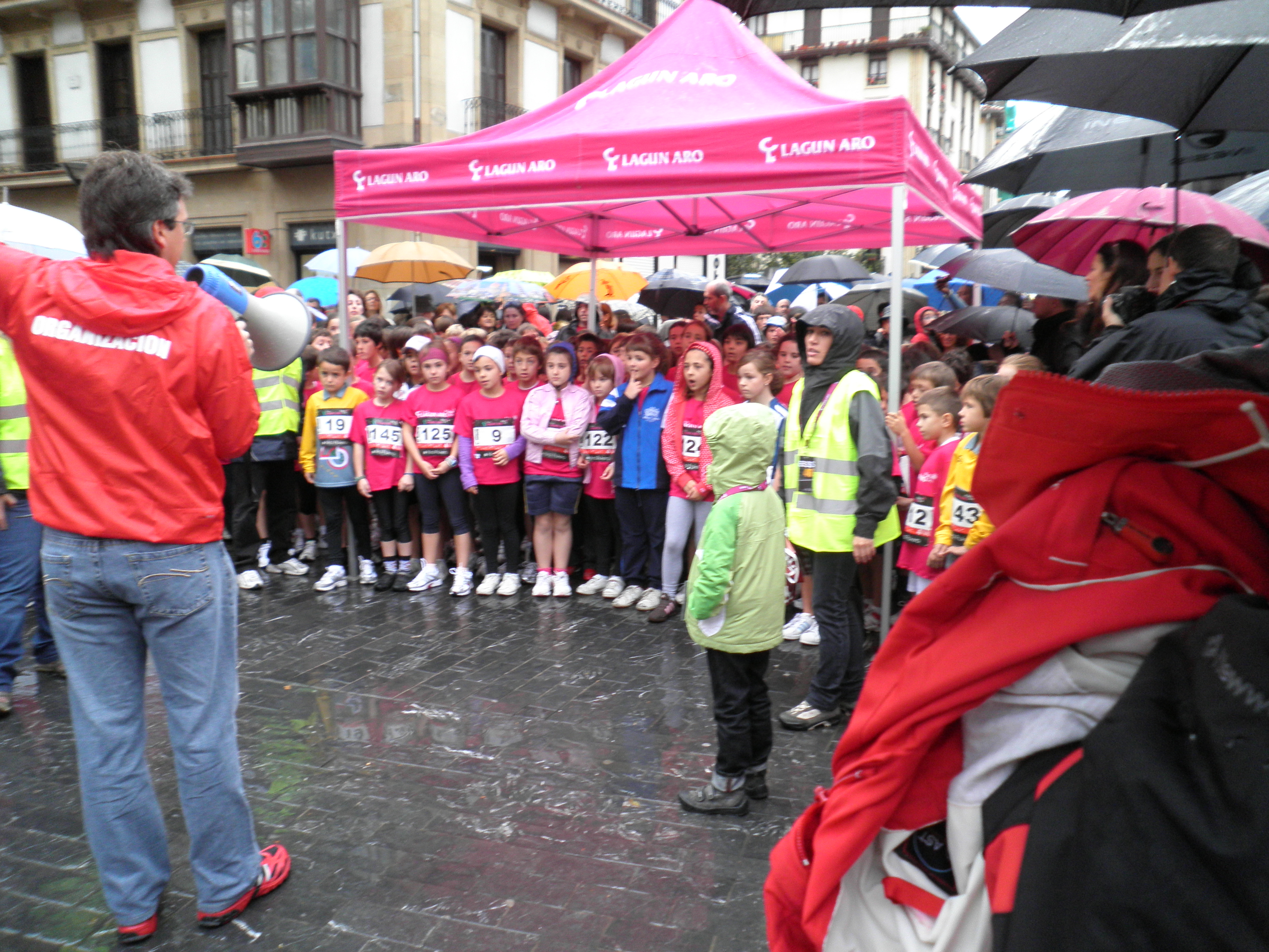 Behobia-Donostia, 2011 edition.